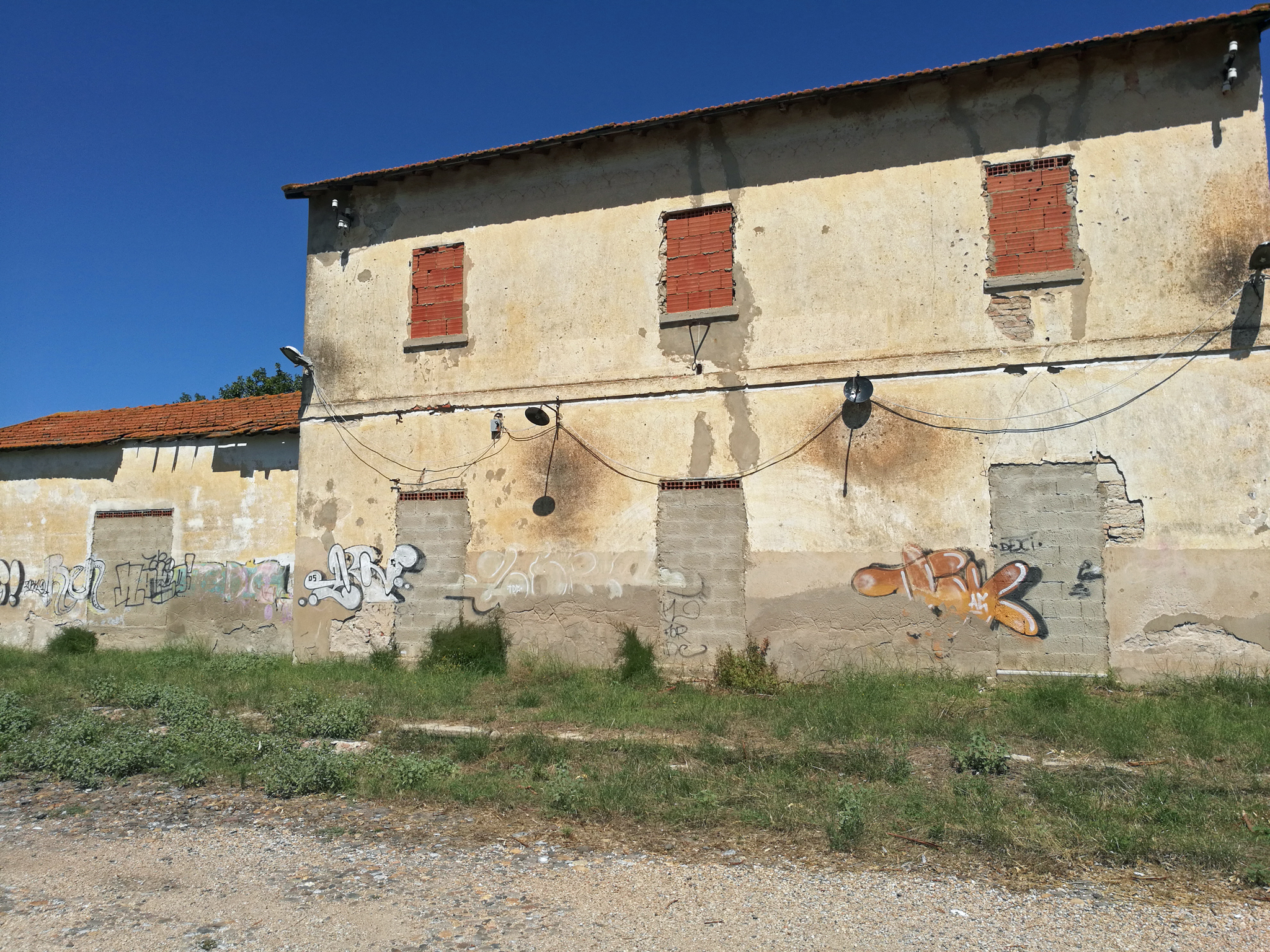 The former train station of Giba in Sardinia, Italy, along the dismantled railway Siliqua-San Giovanni Suergiu-Calasetta